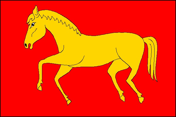 Municipal flag of Březsko village, Prostějov District, Czech Republic.